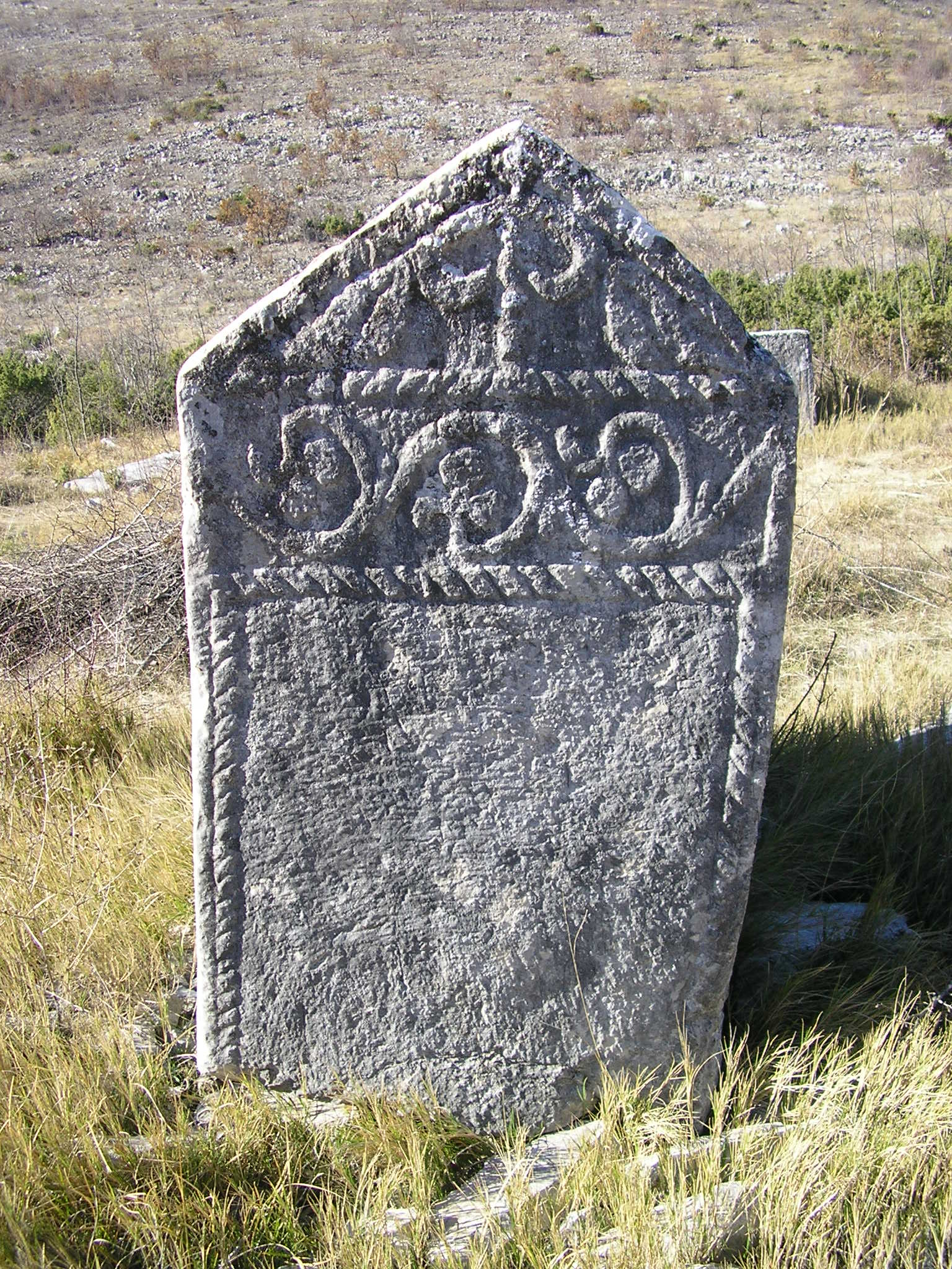 Međugorje necropolis near Glumina